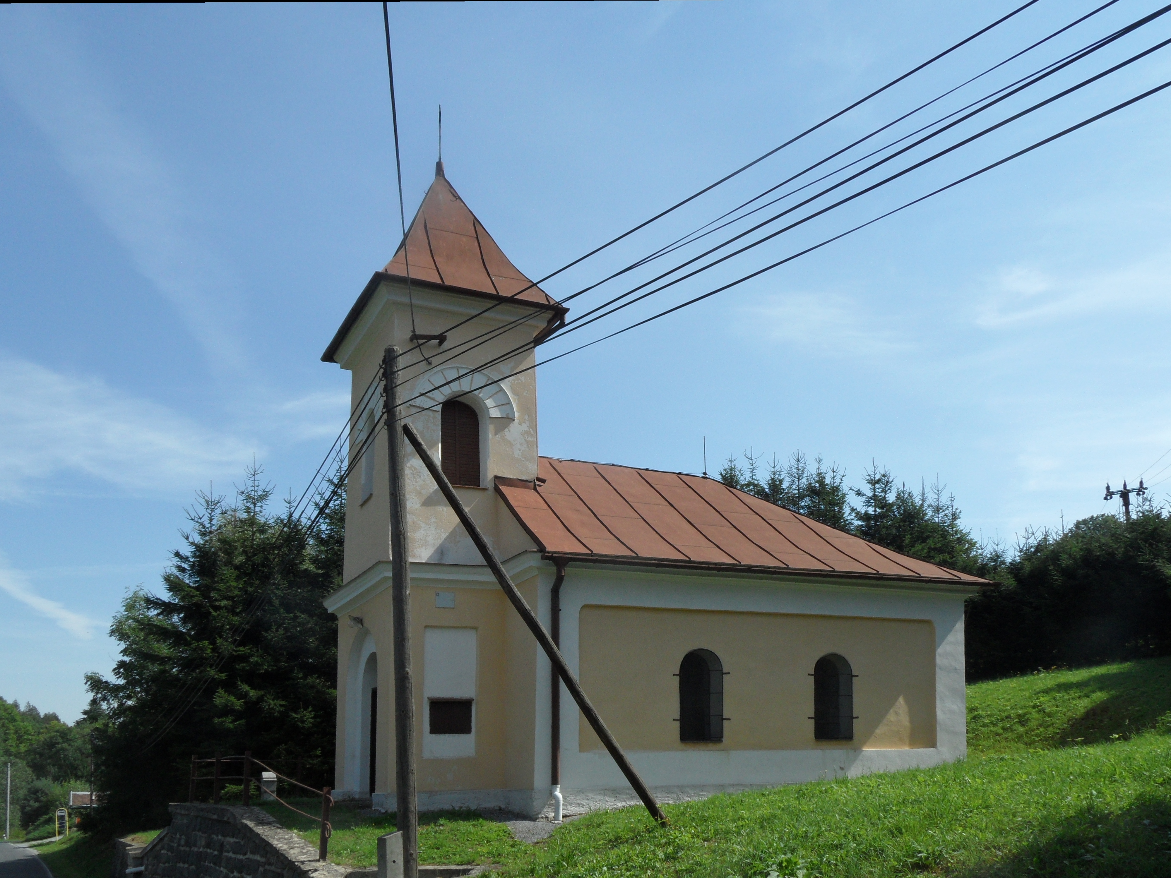 Petrovice (Skorošice) A. Church: Side View. Jeseník District, the Czech Republic.